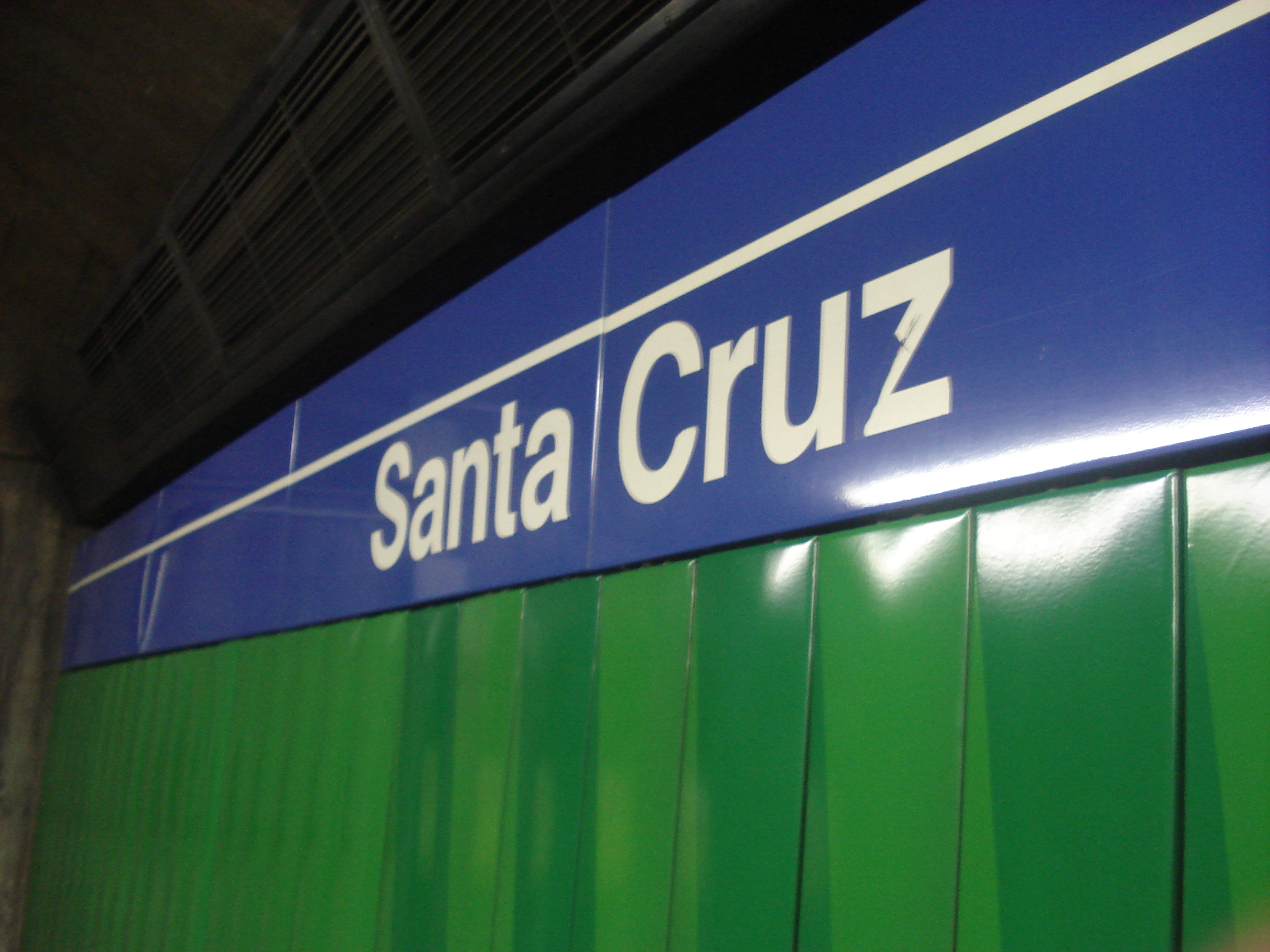 Santa Cruz Station of São Paulo Metro Line 1 - Blue.